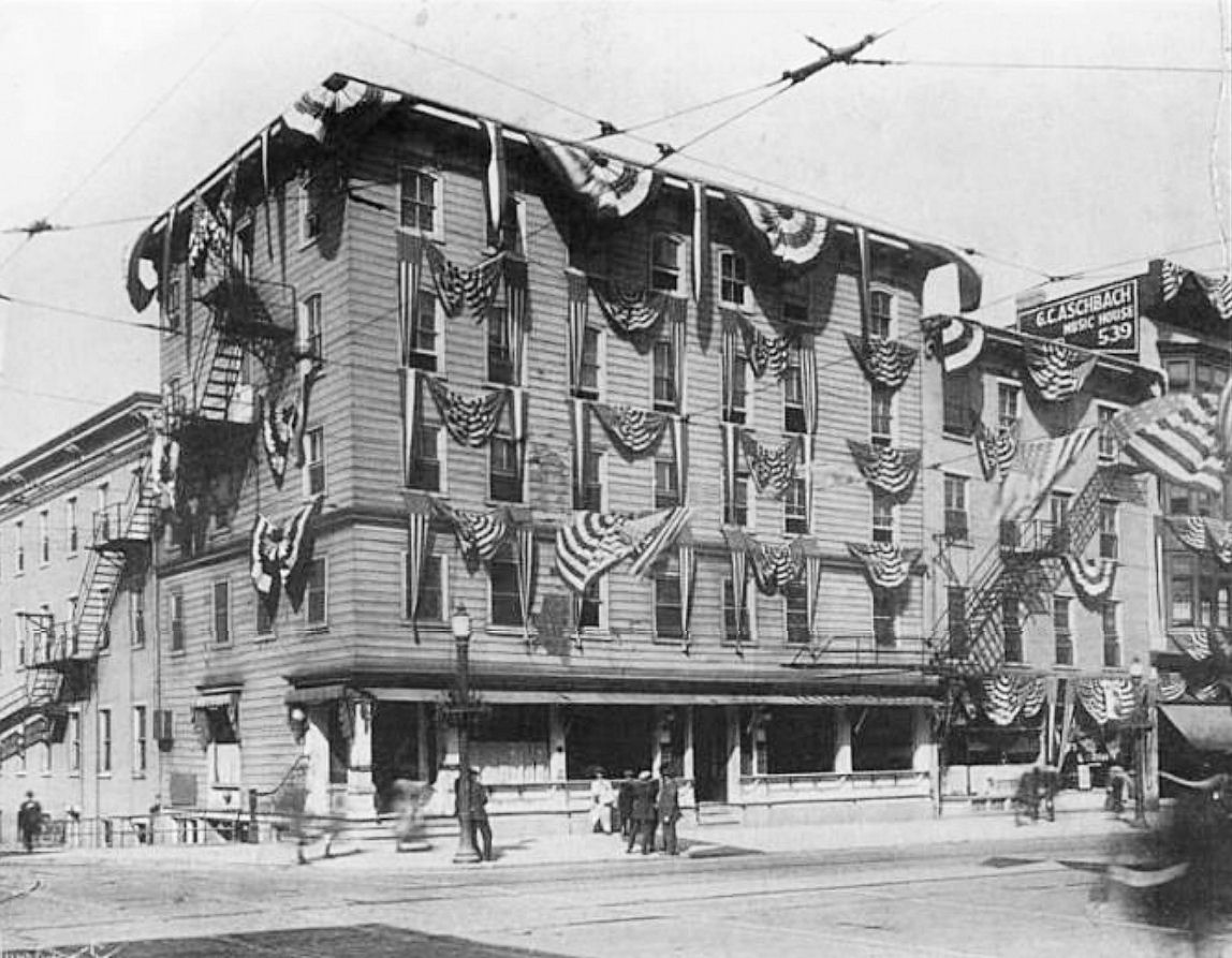 American Hotel, located at 6th & Hamilton Streets, Allentown, PA, decorated on Armistice Day, 11 November 1918. Torn down in 1924 and replaced by Americus Hotel